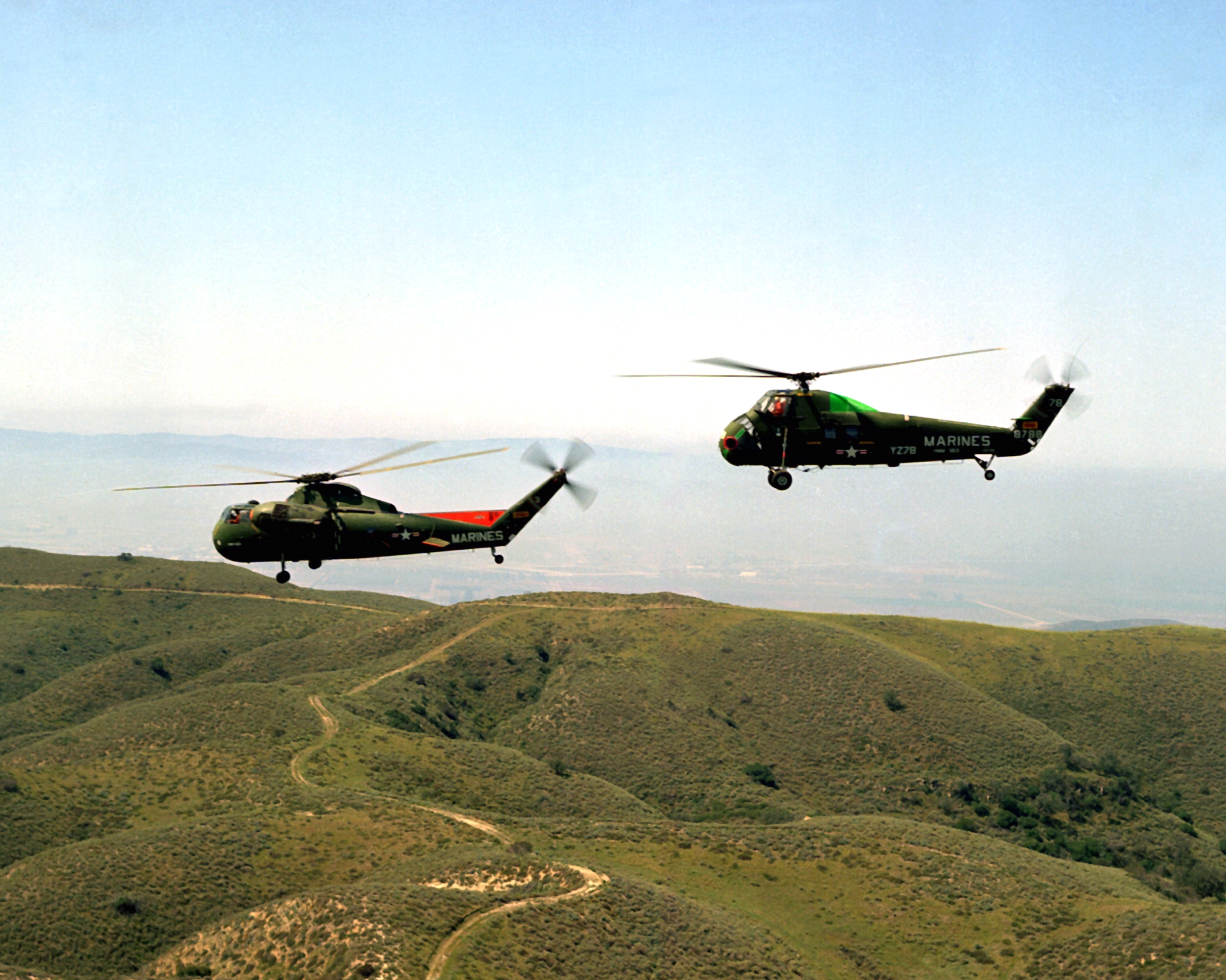 Two U.S. Marine Corps helicopters from Marine Corps Air Station, Tustin, California (USA) in flight in 1964. A Sikorsky CH-37C Mojave from Marine heavy helicopter squadron HMH-462 leads a Sikorsky UH-34D Seahorse helicopter from Marine medium helicopter squadron HMM-363.